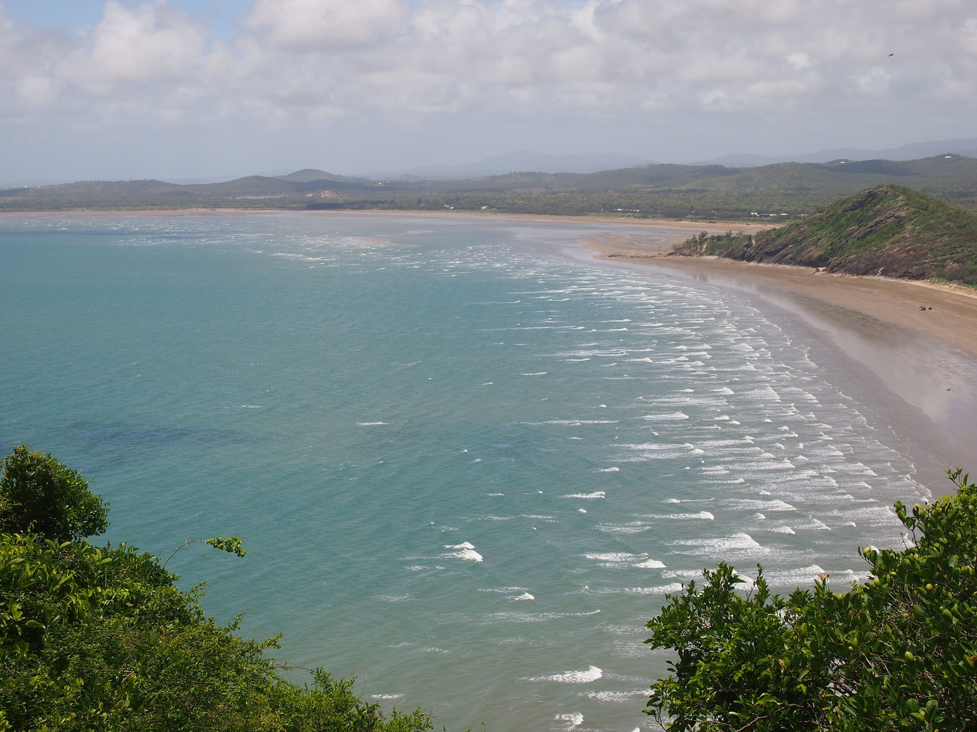 Capricorn coast national park, Buff Point